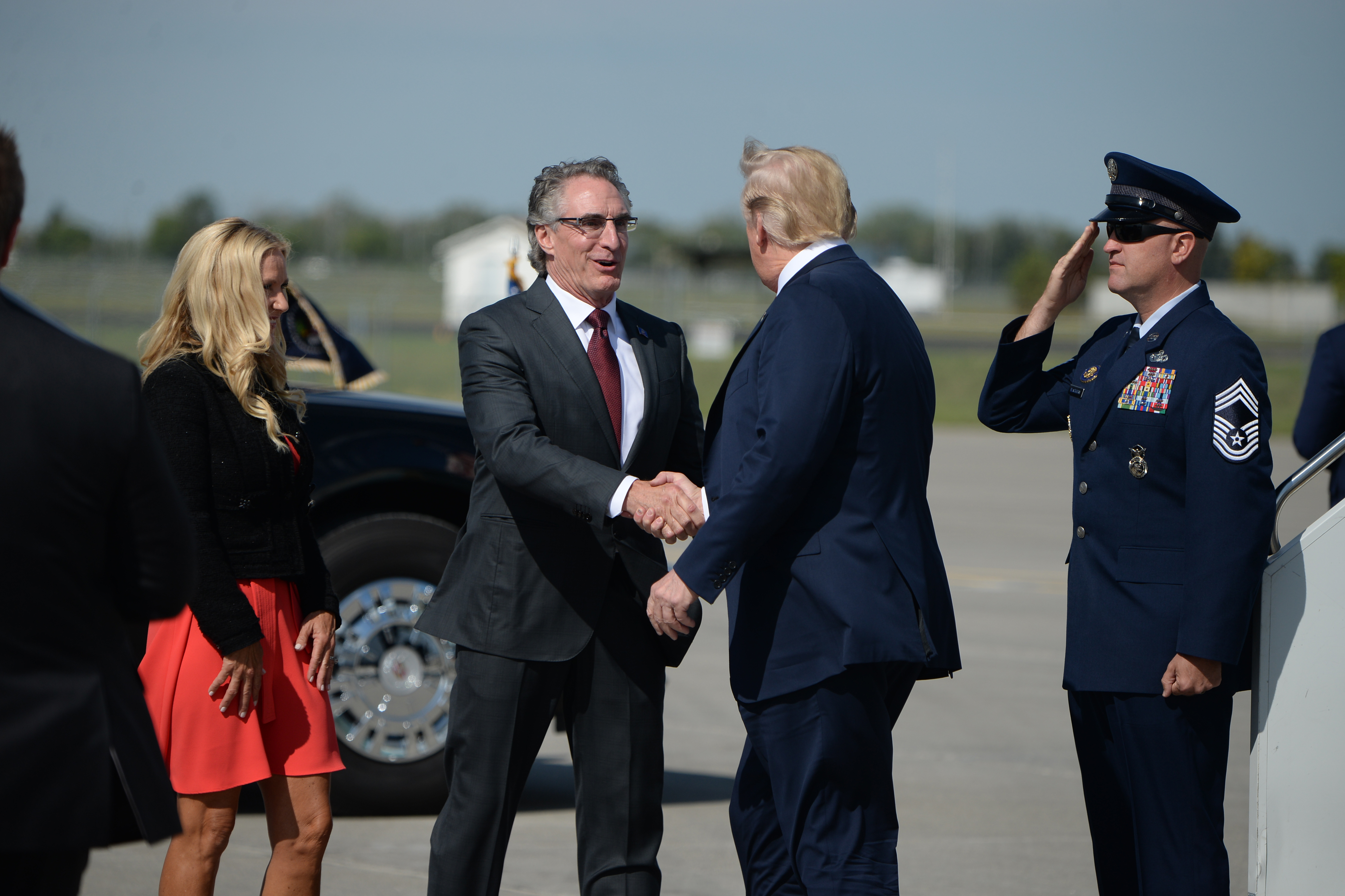 North Dakota Gov. Doug Burgum, greets U.S. President Donald J. Trump arrives at the North Dakota Air National Guard Base, Fargo, N.D., Sept. 7, 2018. (U.S. Air National Guard photo by Senior Master Sgt. David H Lipp)